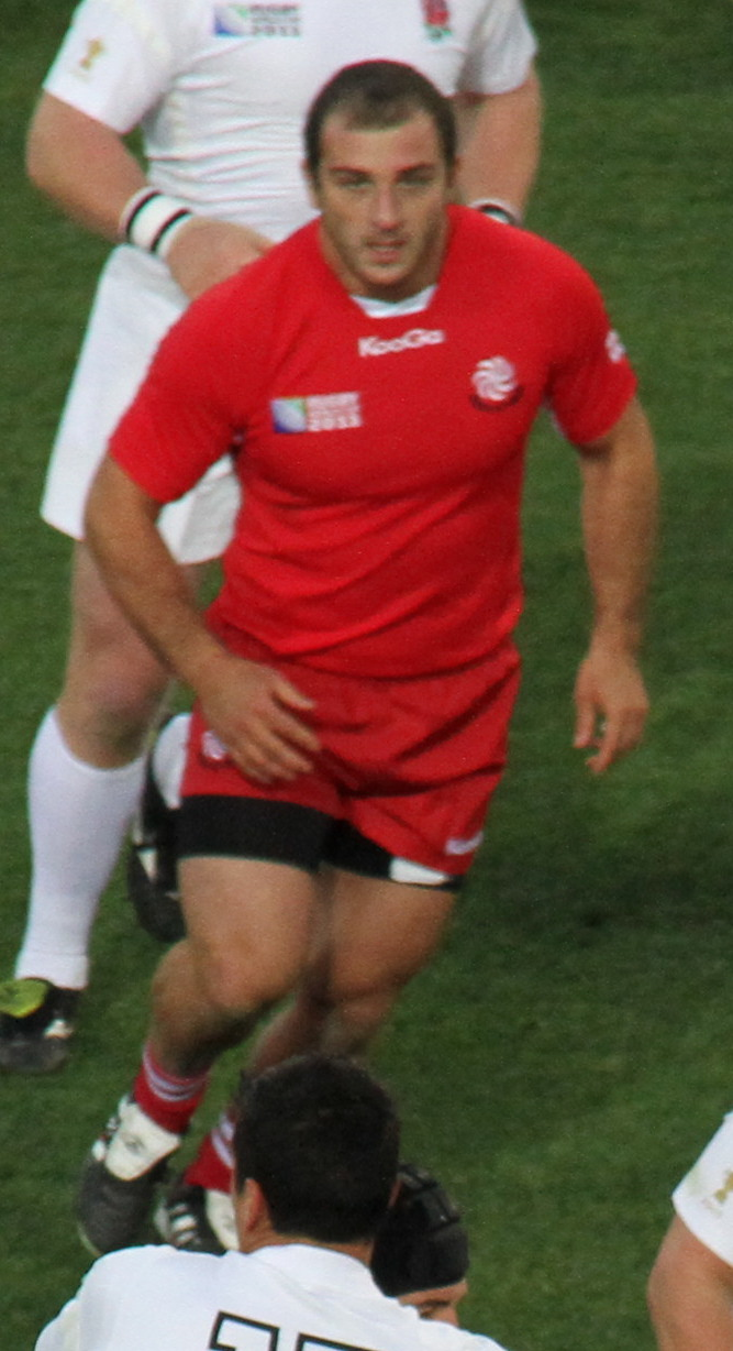 Georgian rugby union player Jaba Bregvadze during 2011 Rugby World Cup against England.